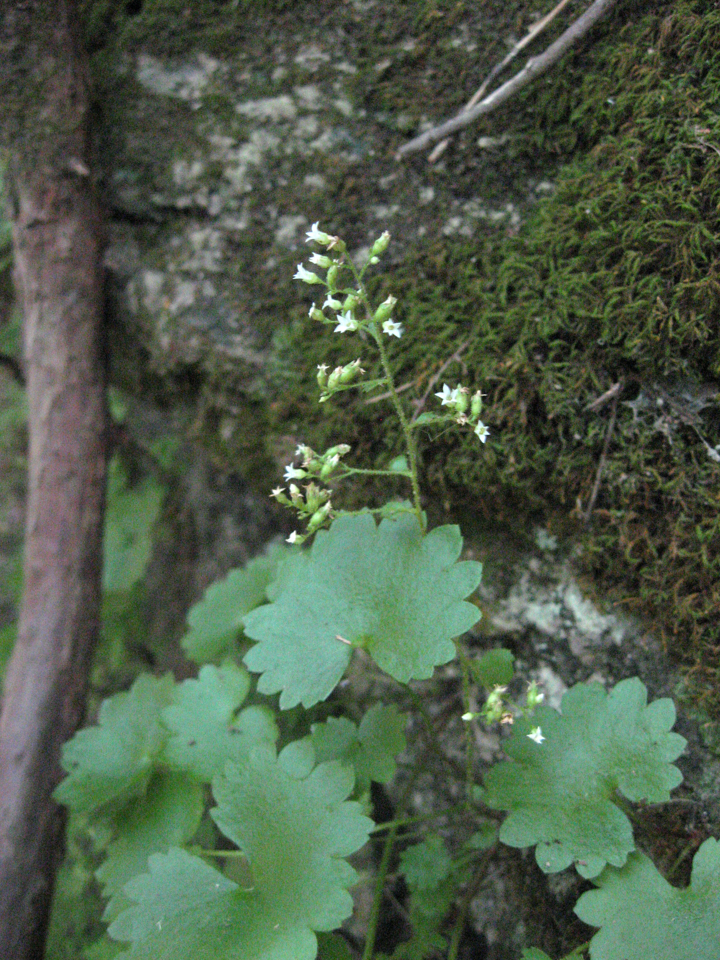 Sullivantia sullivantii, wet dolomite cliffs in Adams County, Ohio